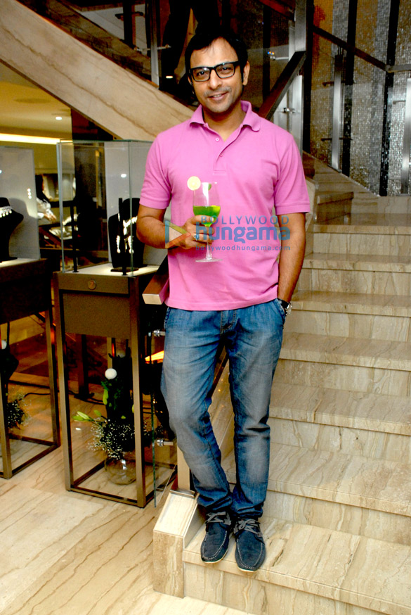 Joy Sengupta at Zoya celebrates Valentine's Day with Merchant of Venice